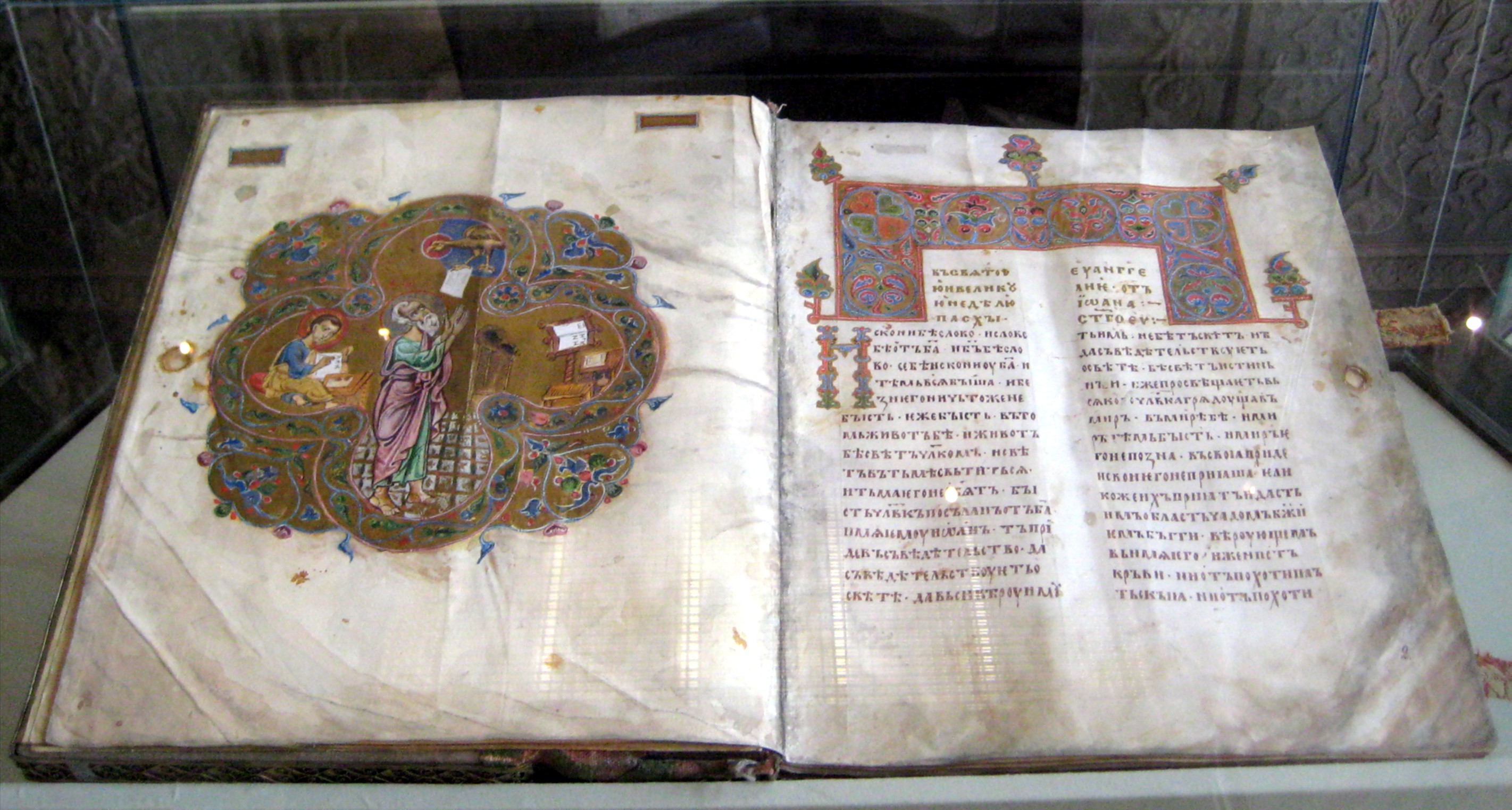 Gospels of Prince Mstislav. Before 1117. Scribe - Alexa; painter - Jaden.